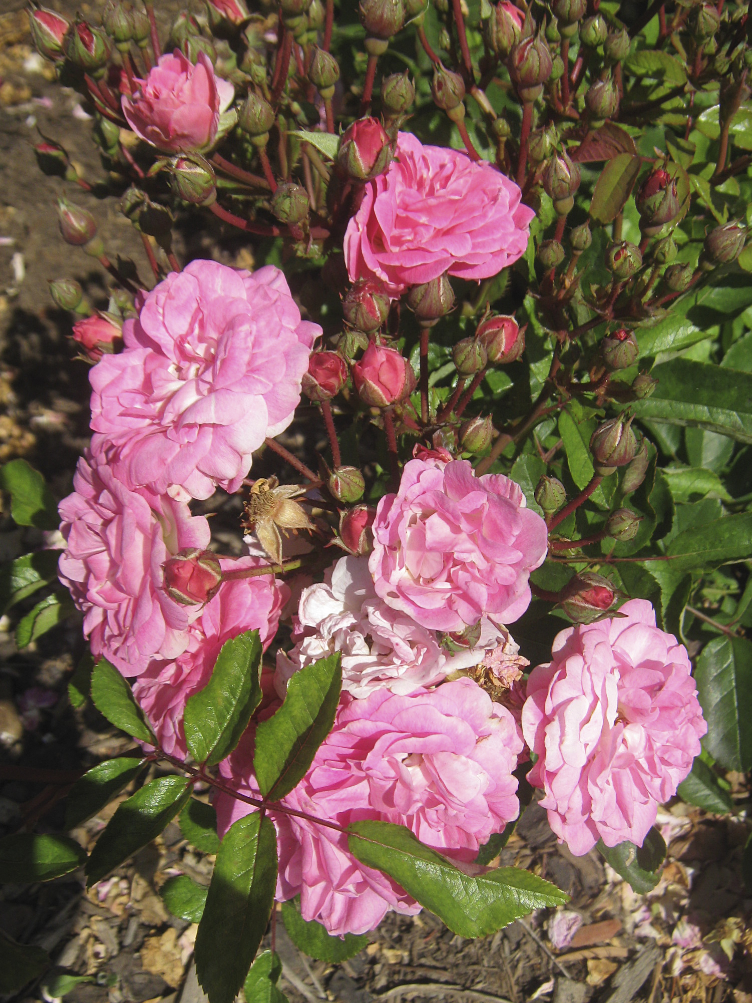 Rose 'Suitor', Polyantha by Alister Clark 1940; photographed at the Victoria State Rose Garden, Werribee Park, Victoria